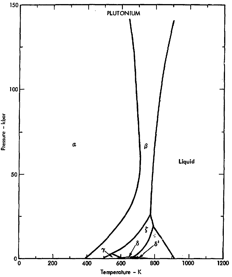 These 1975 phase diagrams are generally incomplete, reaching at most 250 kbar (25 GPa) and thus lacking many high-pressure metallic phases. Taken from "Phase Diagrams of the Elements", David A. Young, UCRL-51902 "Prepared for the U.S. Energy Research & Development Administration under contract No. W-7405-Eng-48". From the document, "DISTRIBUTION OF THIS DOCUMENT IS UNLIMITED"; printed copies were available from the National Technical Information Service.